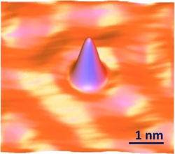 STM topographic image of a single Co atom on Cu(111) shown in a light shaded view. Current 1 nA, sample bias -10 mV, T = 2.3 K.